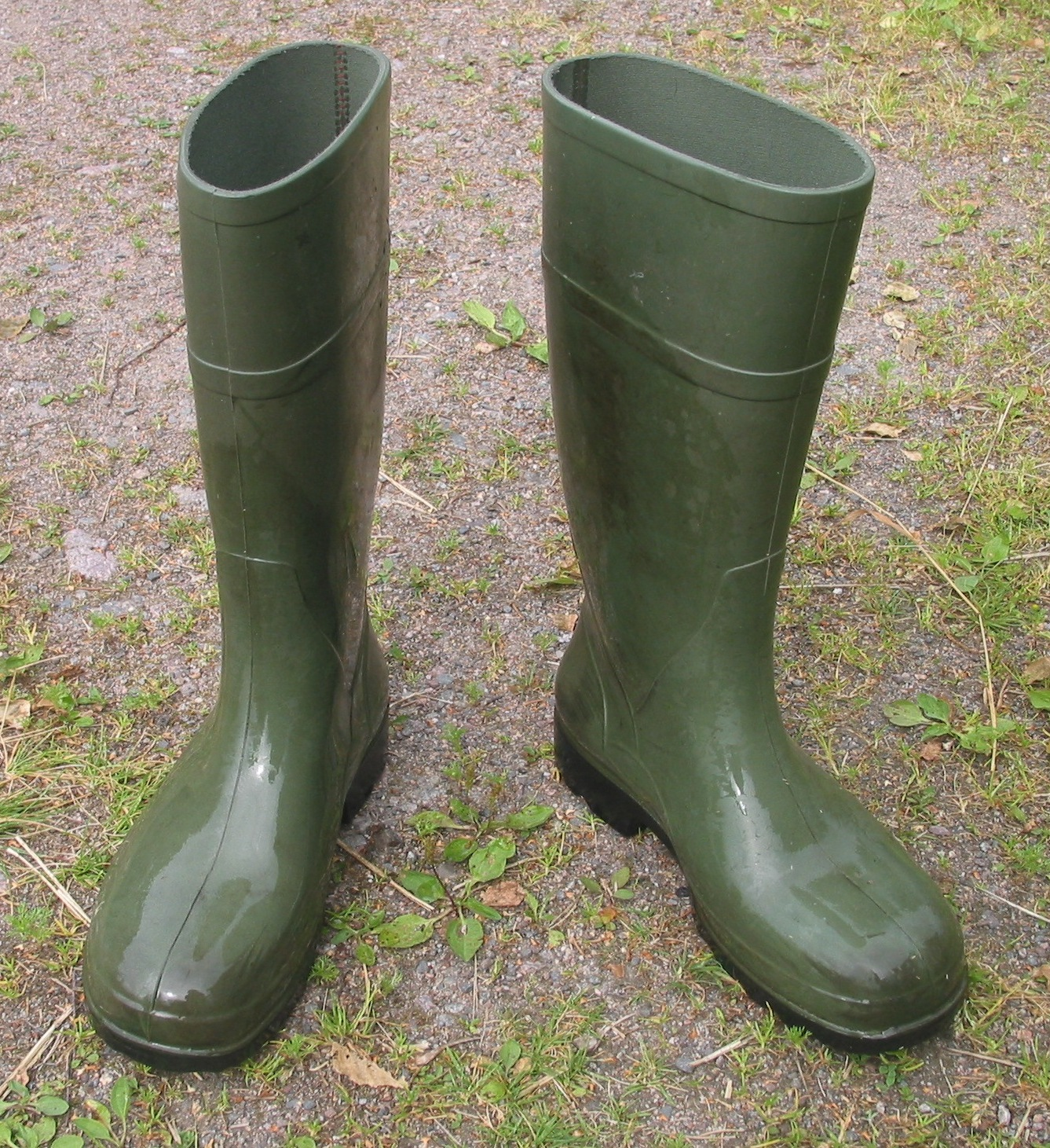 Sievi boots, made by Sievi , Finland